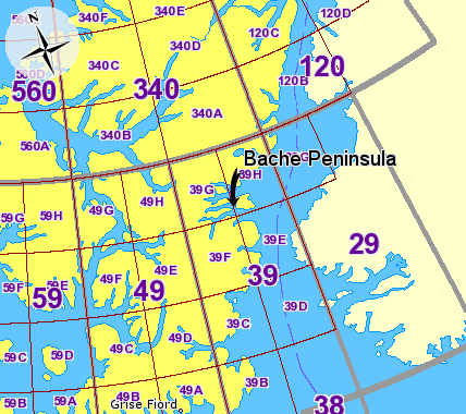 License for this image released by the Government of Canada. License Agreement